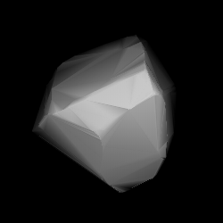 3D convex shape model of 1204 Renzia, computed using light curve inversion techniques. J. Hanuš, J. Ďurech, M. Brož, B. D. Warner (June 2011). "A study of asteroid pole-latitude distribution based on an extended set of shape models derived by the lightcurve inversion method". Astronomy and Astrophysics 530: A134. ISSN 0004-6361. arXiv